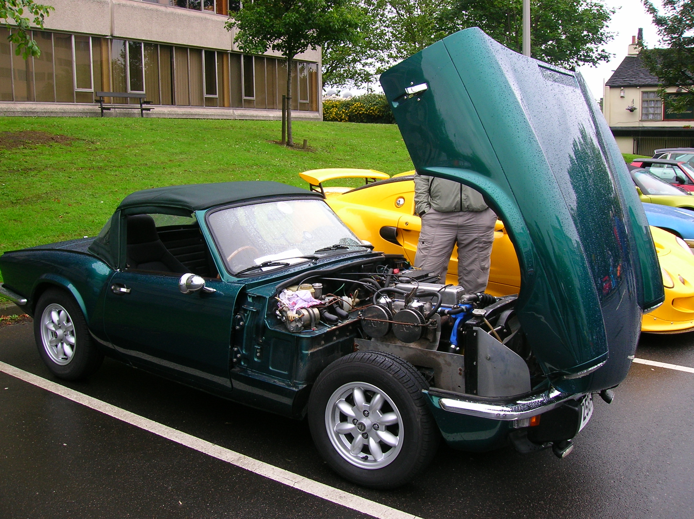 Triumph SpitfireTriumph Spitfire